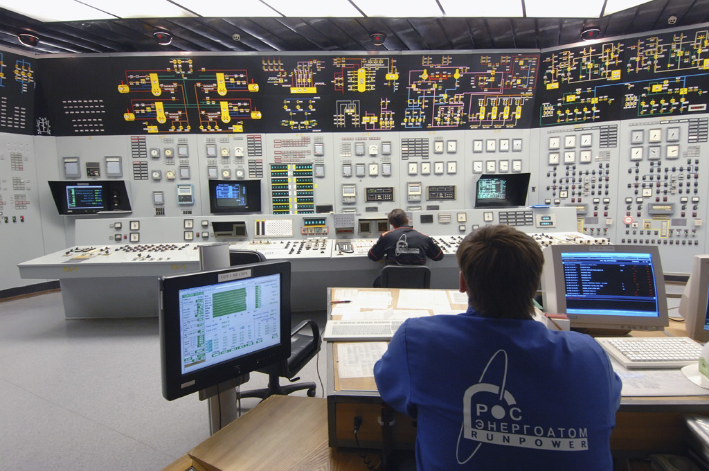 “The Novovoronezh nuclear power plant”. Control panel of the Novovoronezh nuclear power plant's third reactor.